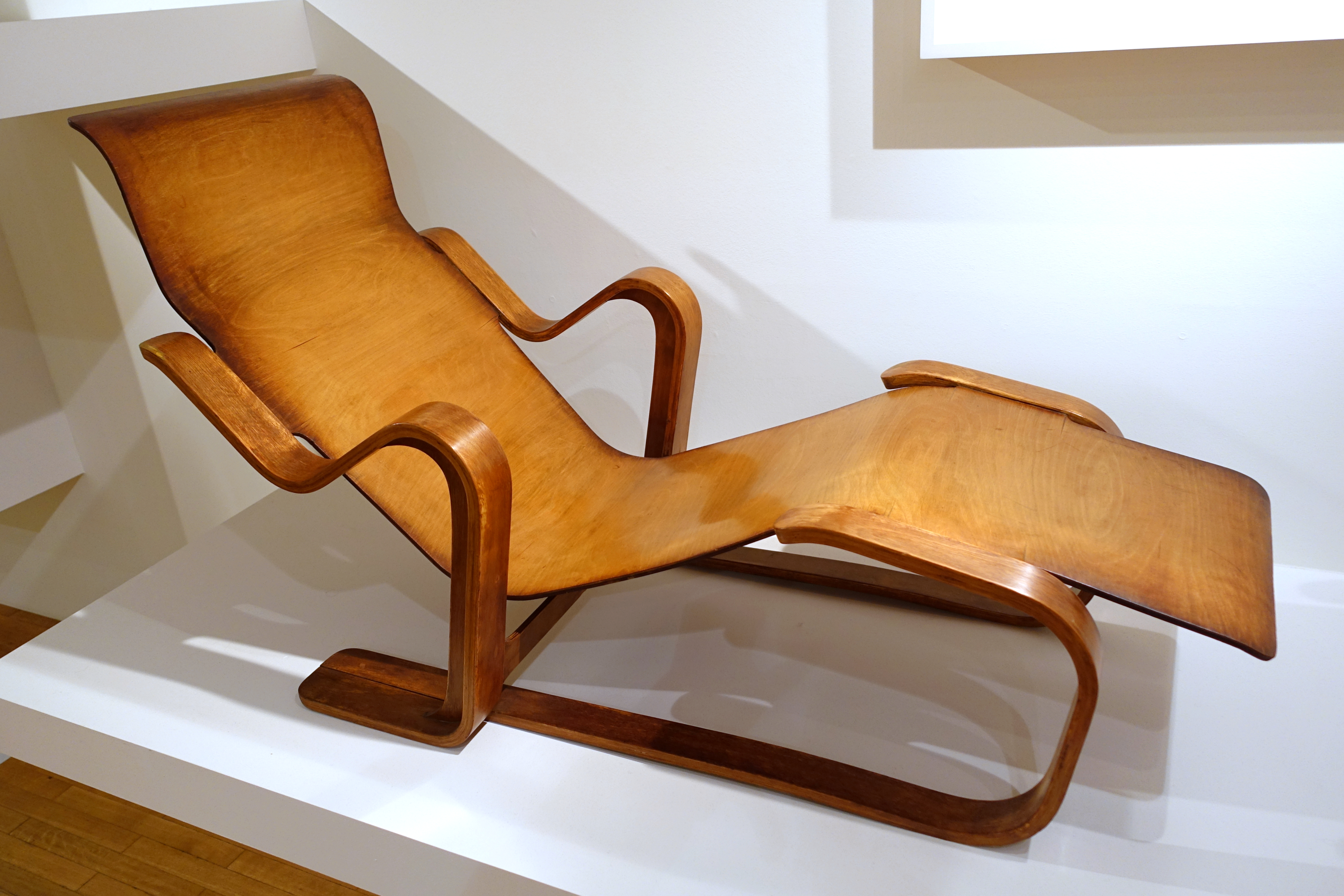 Exhibit in the Museum für Angewandte Kunst Köln - Cologne, Germany. As a utilitarian object, this work is NOT subject to copyright laws. In Finland, the EU, and Russia, design rights are granted for a maximum of 25 years. This protection period has passed, and hence this work is now in the public domain.